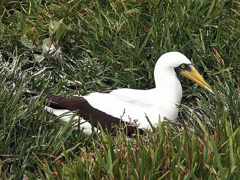 Masked Booby (Sula dactylatra dactylatra) at Abrolhos, Bahia Brasil